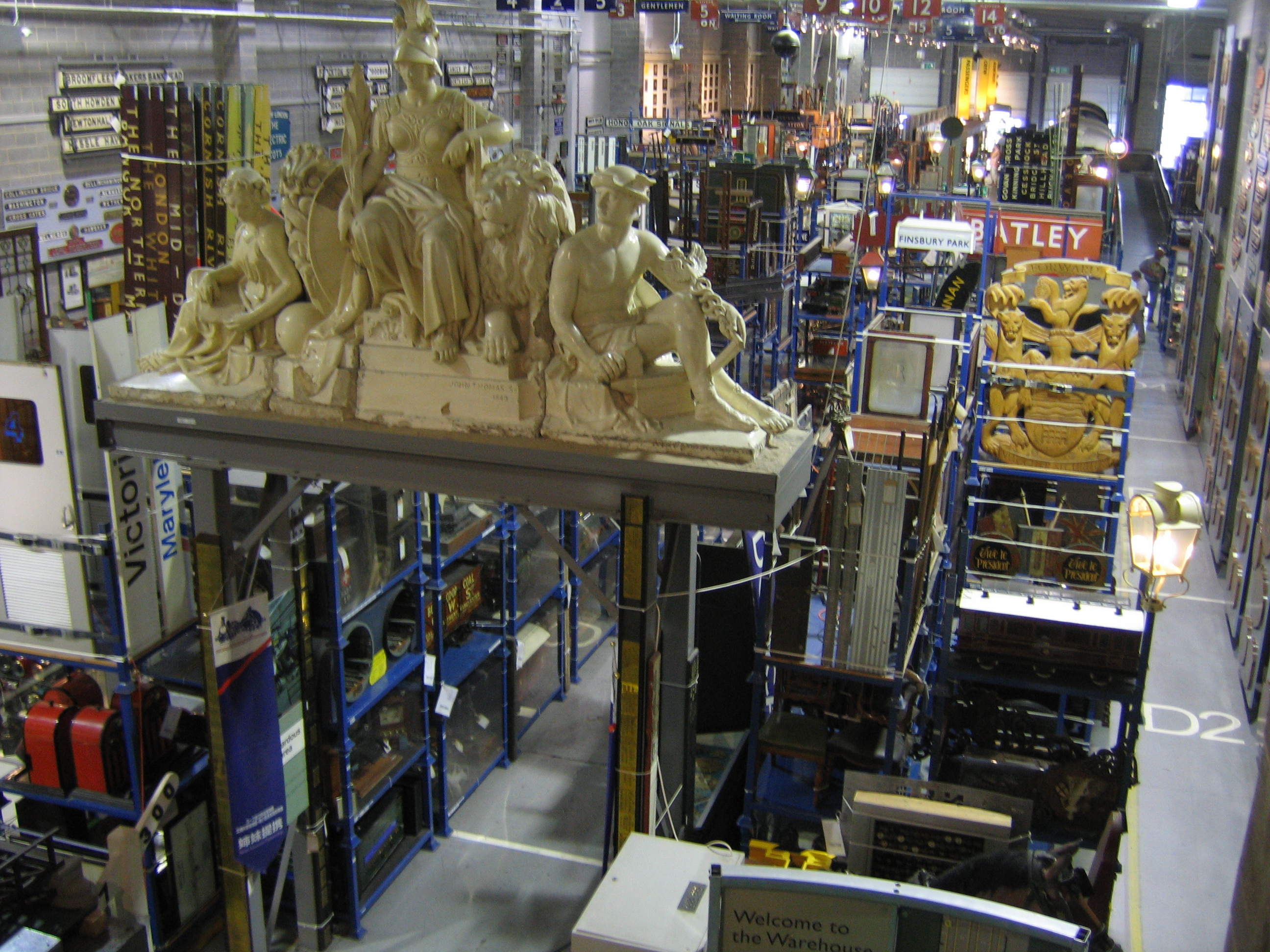 Public Depot of National Railway Museum, York